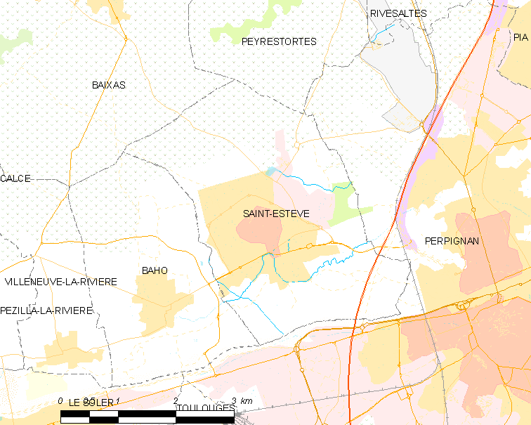 Map of French municipality